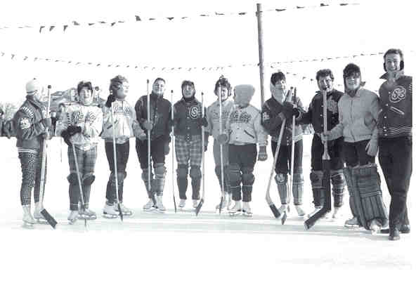 Female students of Université de Saint-Boniface playing hockey, c. 1962, in Winnipeg, Manitoba, Canada.